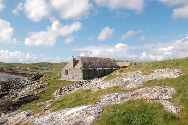 Blackhouse Restored blackhouse on Berneray